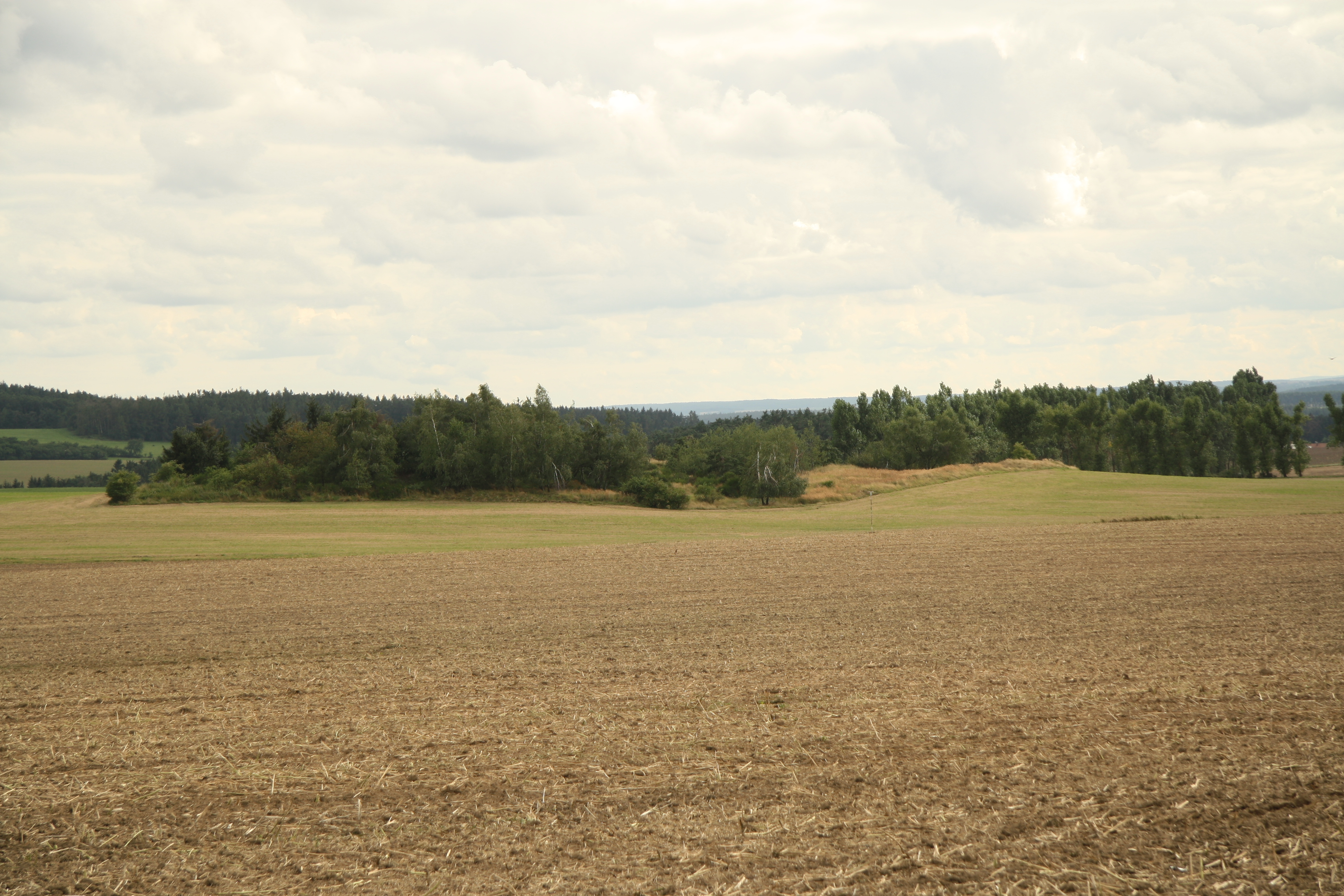 Hills of Dešov hills (Dešovská pahorkatina) near Suchá hora and Dešov, Třebíč District.